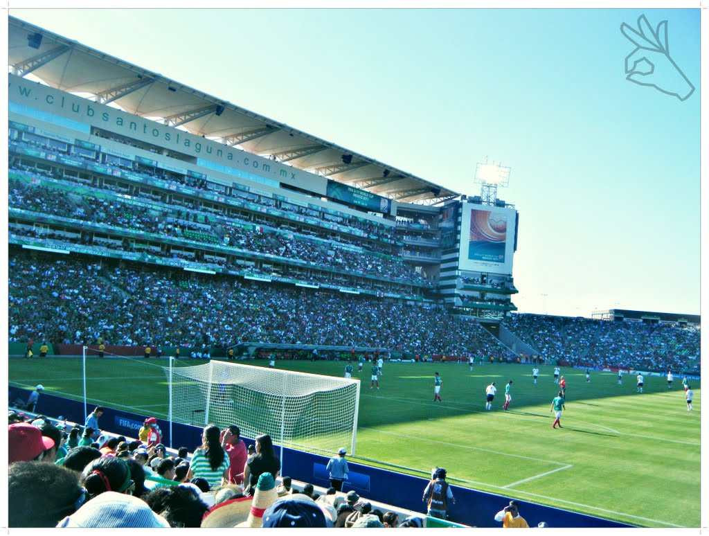 campeonato de futbol sub 17